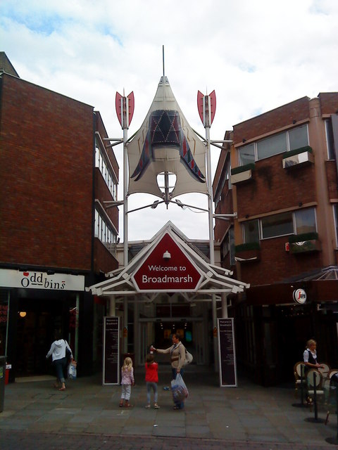 Entrance to the Broadmarsh Shopping Centre.